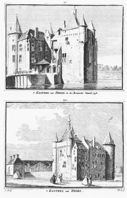 Castle Hedel, Gelderland Netherlands